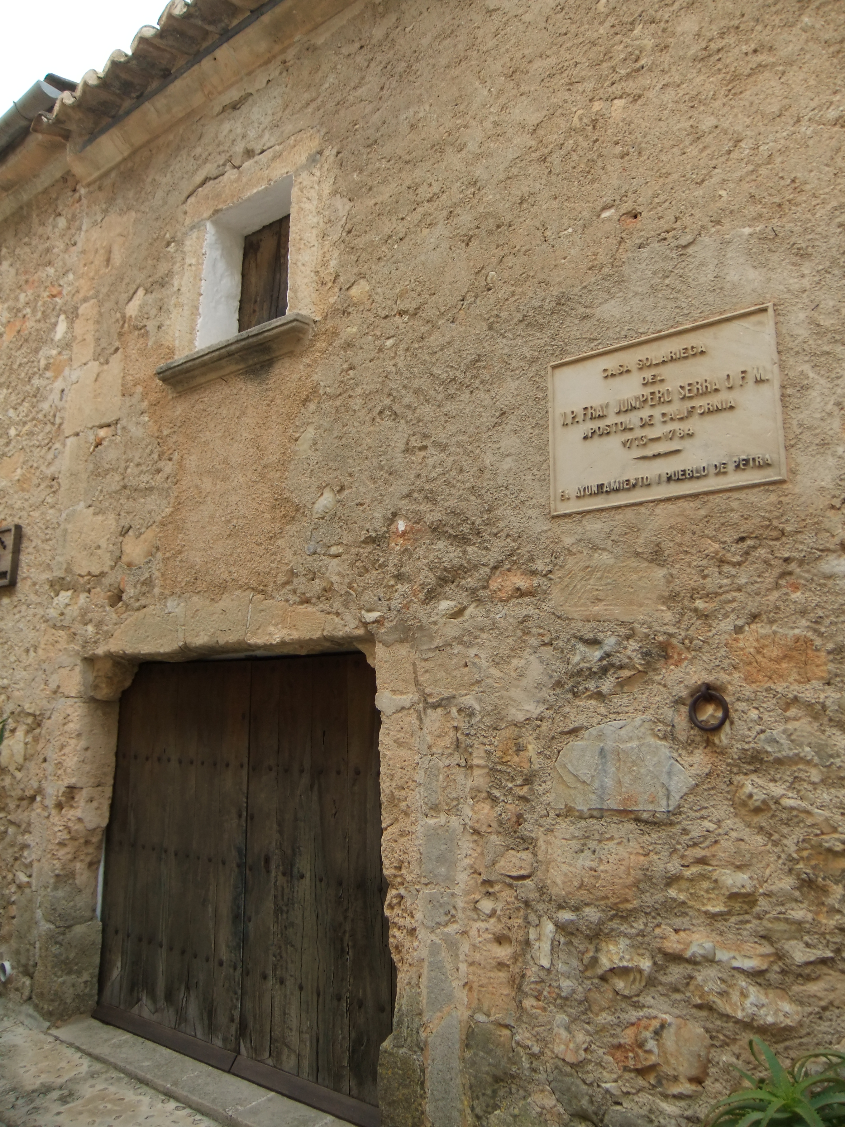 Casa natal de Fray Junípero Serra (birthplace of St. Junípero Serra), Petra, Majorca. St. Junípero Serra, a missionary in California, was canonised in 2015.